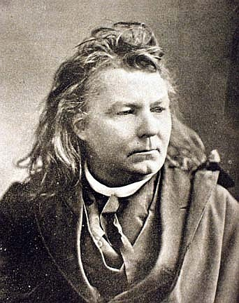 An image of Father Abram J. Ryan.